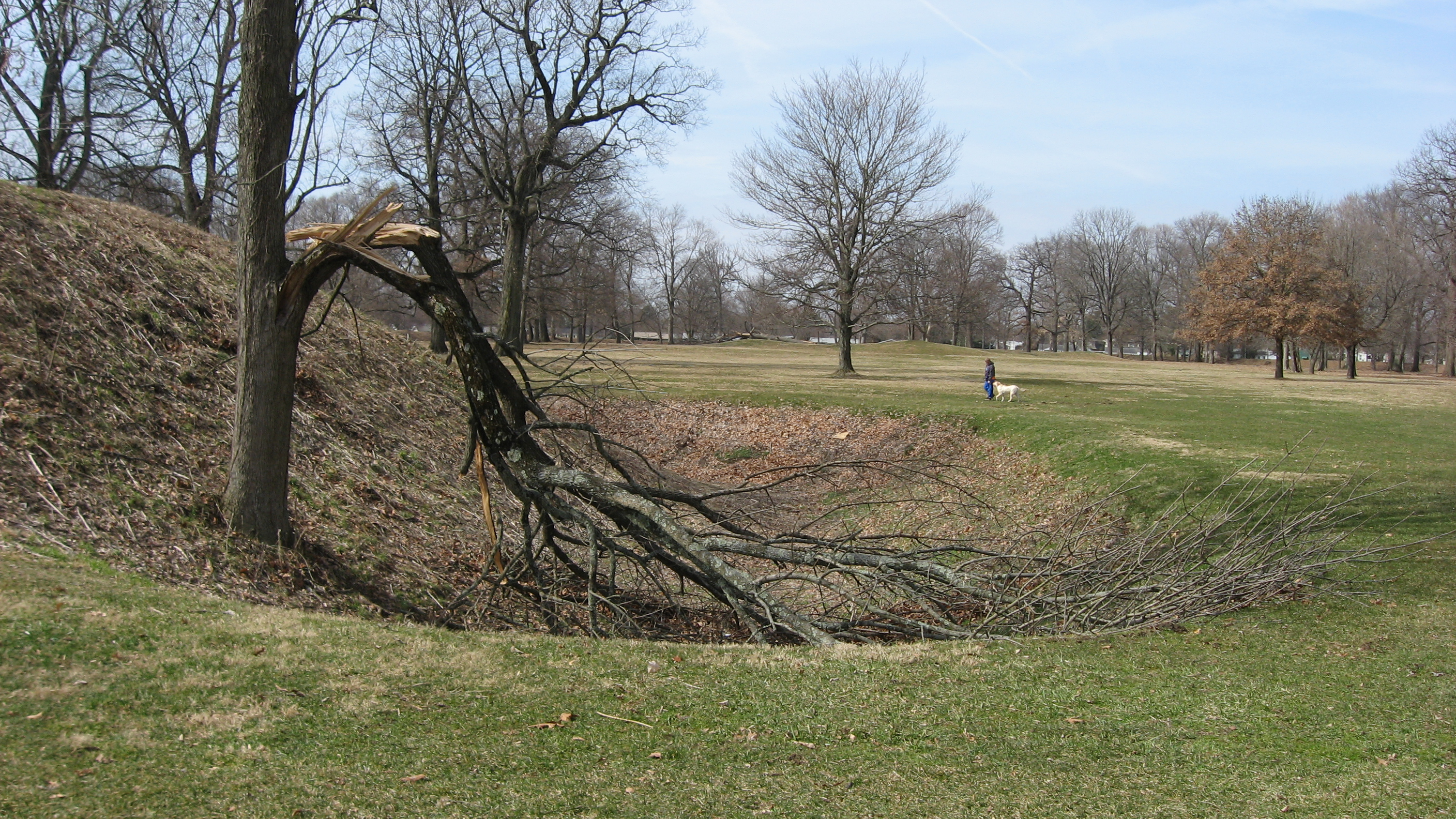 Opening of a ditch on the southern side of the gate to the Great Circle Earthworks in Newark, Ohio, United States; note the nearby person for scale. Along with the Octagon and Wright Earthworks, the Great Circle was built by prehistoric Hopewellian peoples. The three sets of earthworks compose the Newark Earthworks; they have been designated a National Historic Landmark.